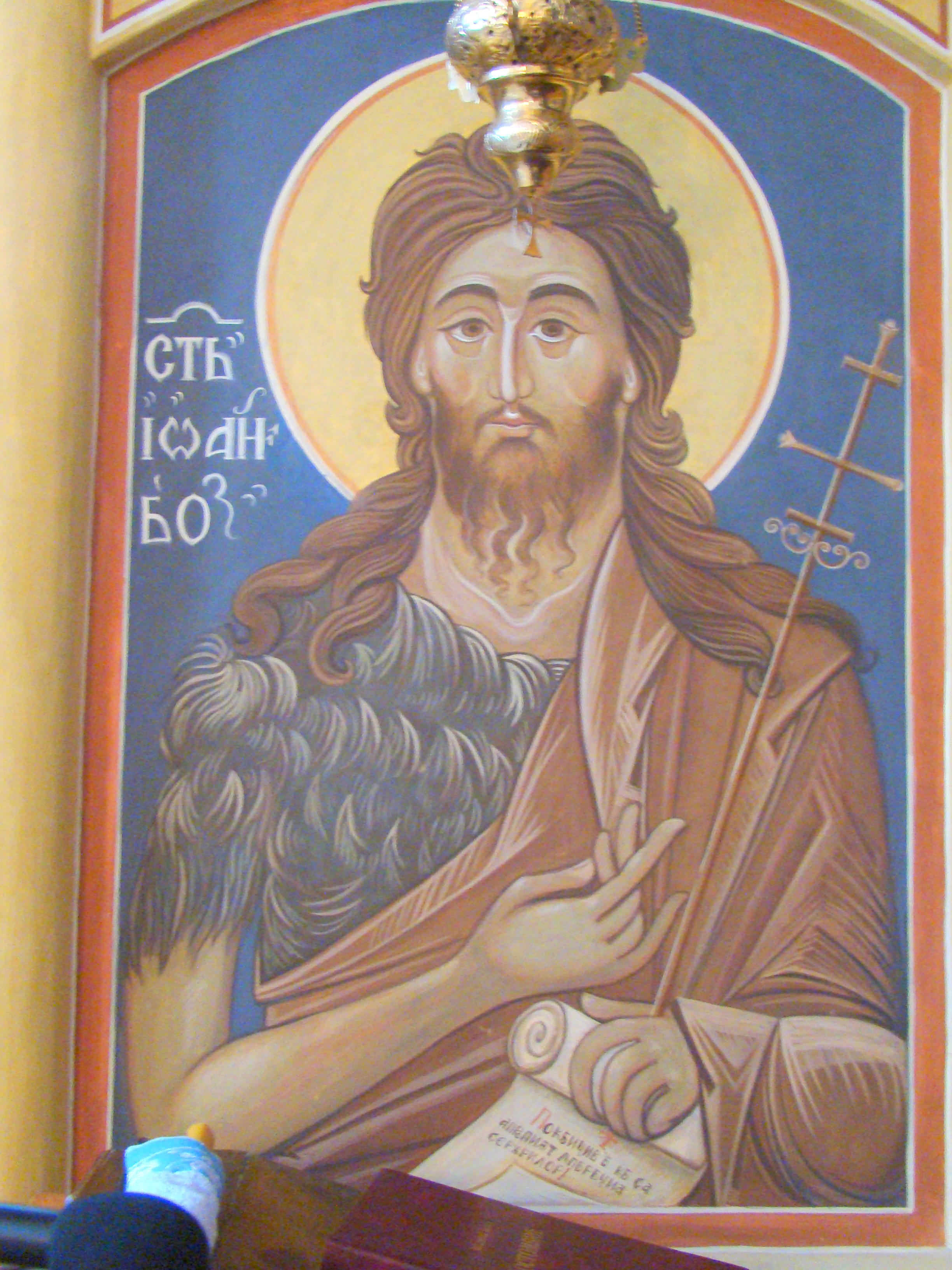 Saint John the Baptist's church in Caransebeș, Caraș-Severin county, Romania